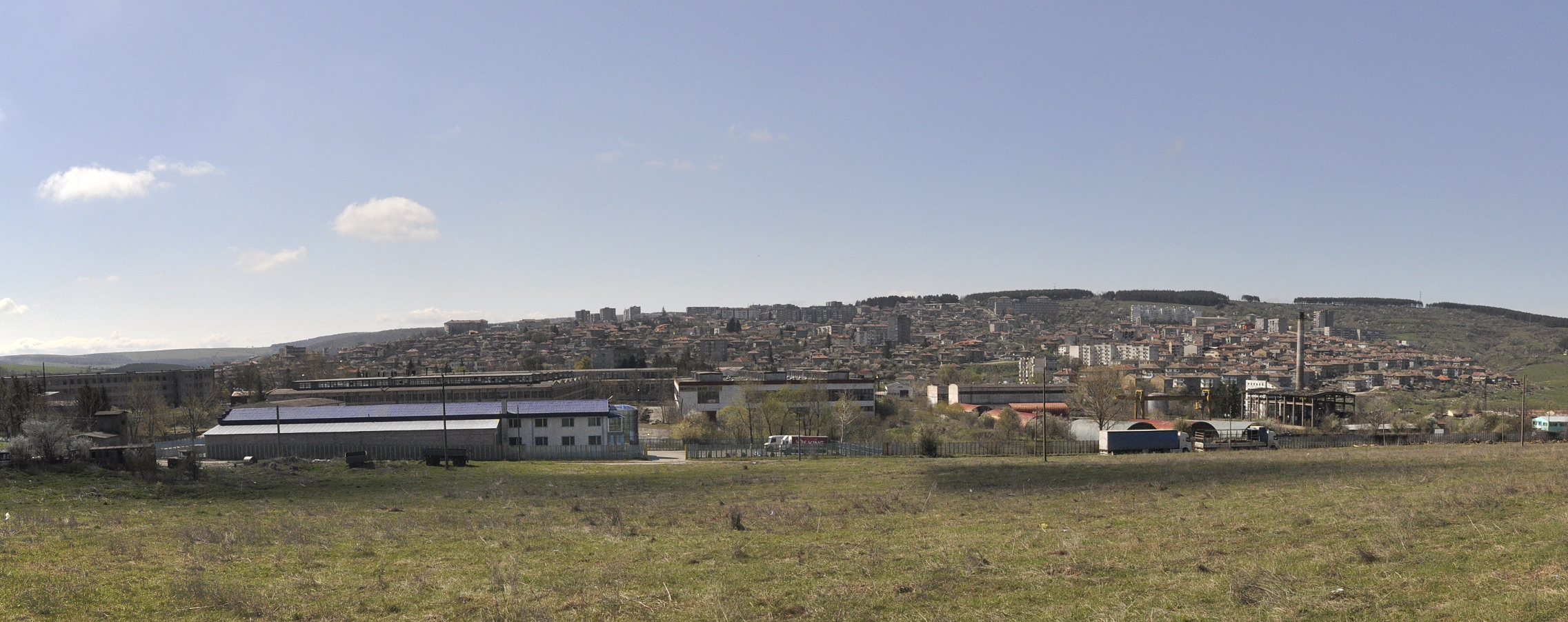 The town of Omurtag, Targovishte Province, Bulgaria.